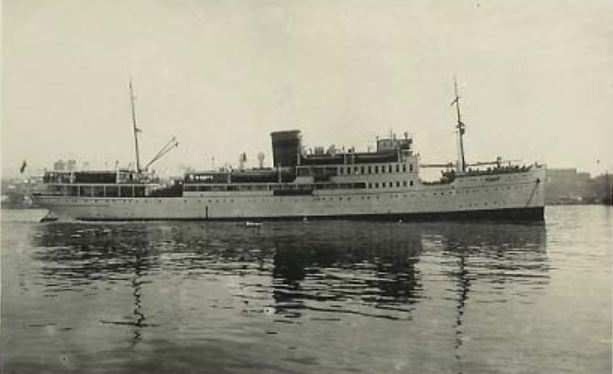 The Spanish ocean liner Ciudad de Barcelona (originally Infante Don Jaime) in Mallorca.